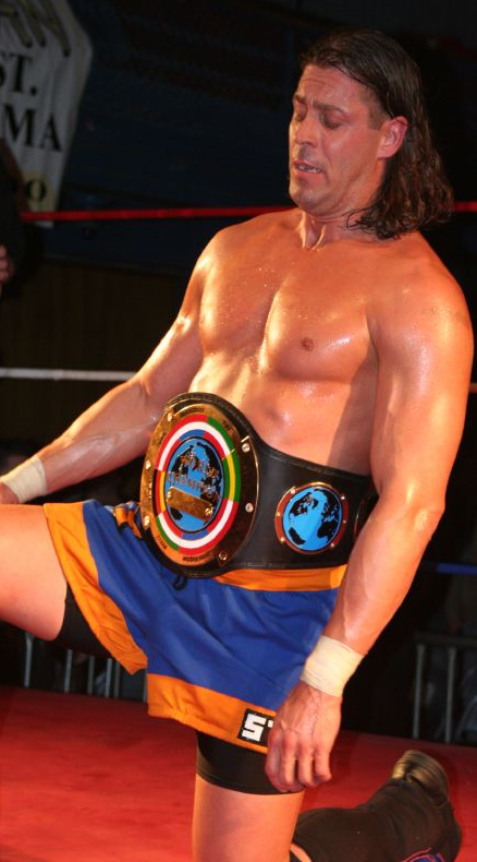 Professional wrestler Stevie Richards in March 2009.